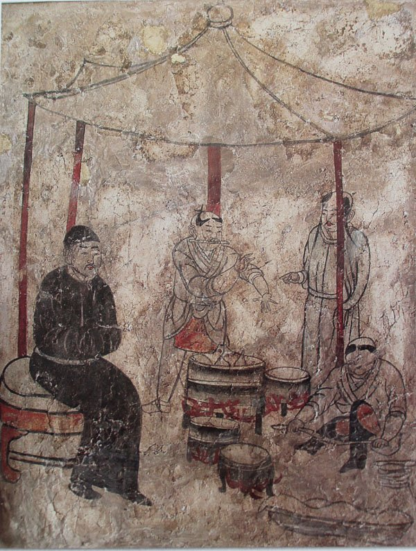 Cooking, Mural from Tomb in Aohan, Liao Dynasty